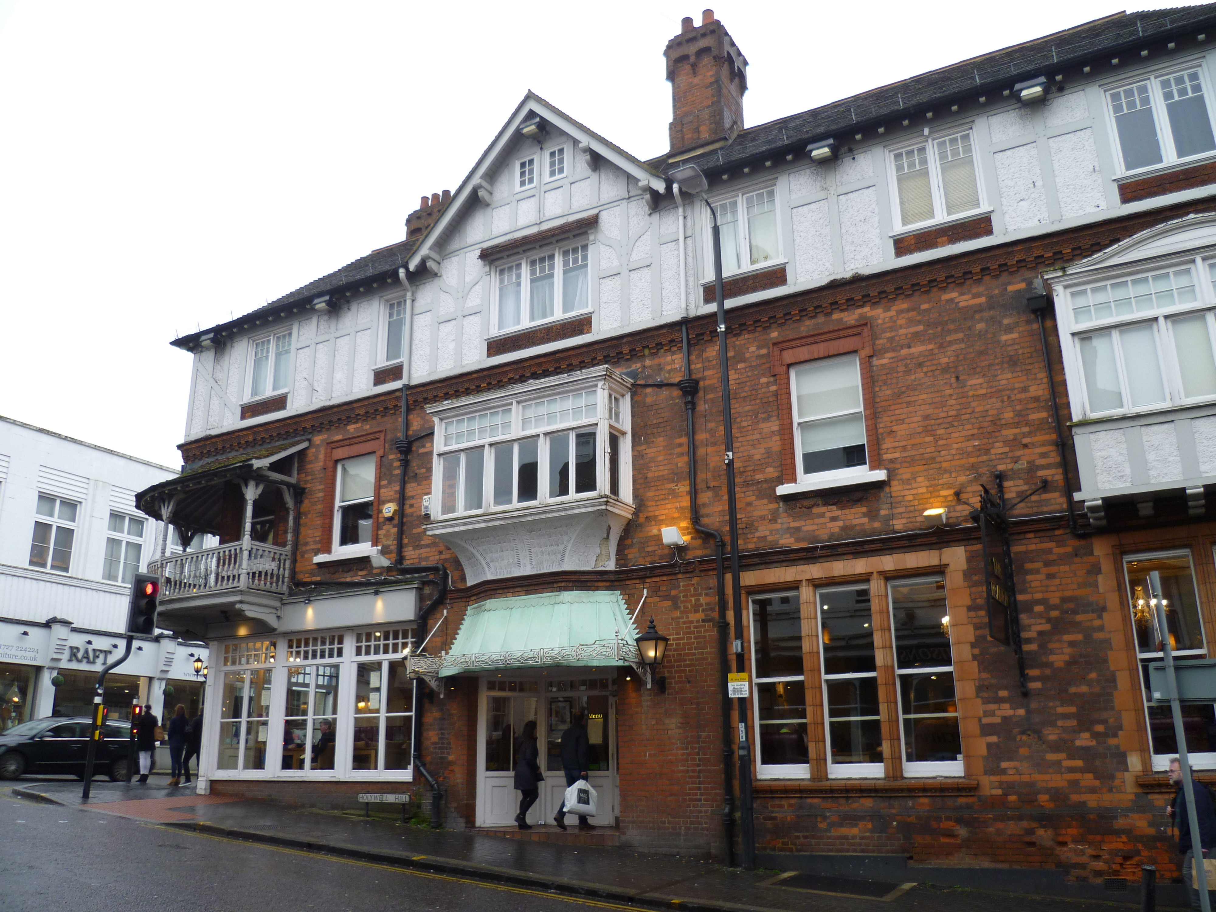 St Albans